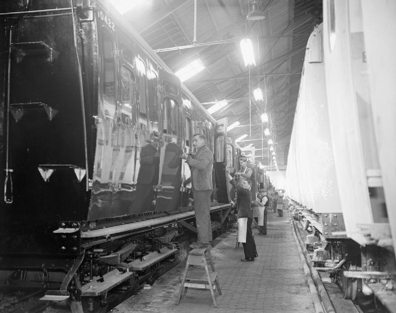 Turkish Railway Delegation Visits Southern Railway Works- Turkish Government Representatives Inspect work at Eastleigh, Hampshire, England, UK, 1944 A general view of work in progress in the paint shop of Southern Railway's Eastleigh Works. Here the men put the finishing touches on electric coaches.